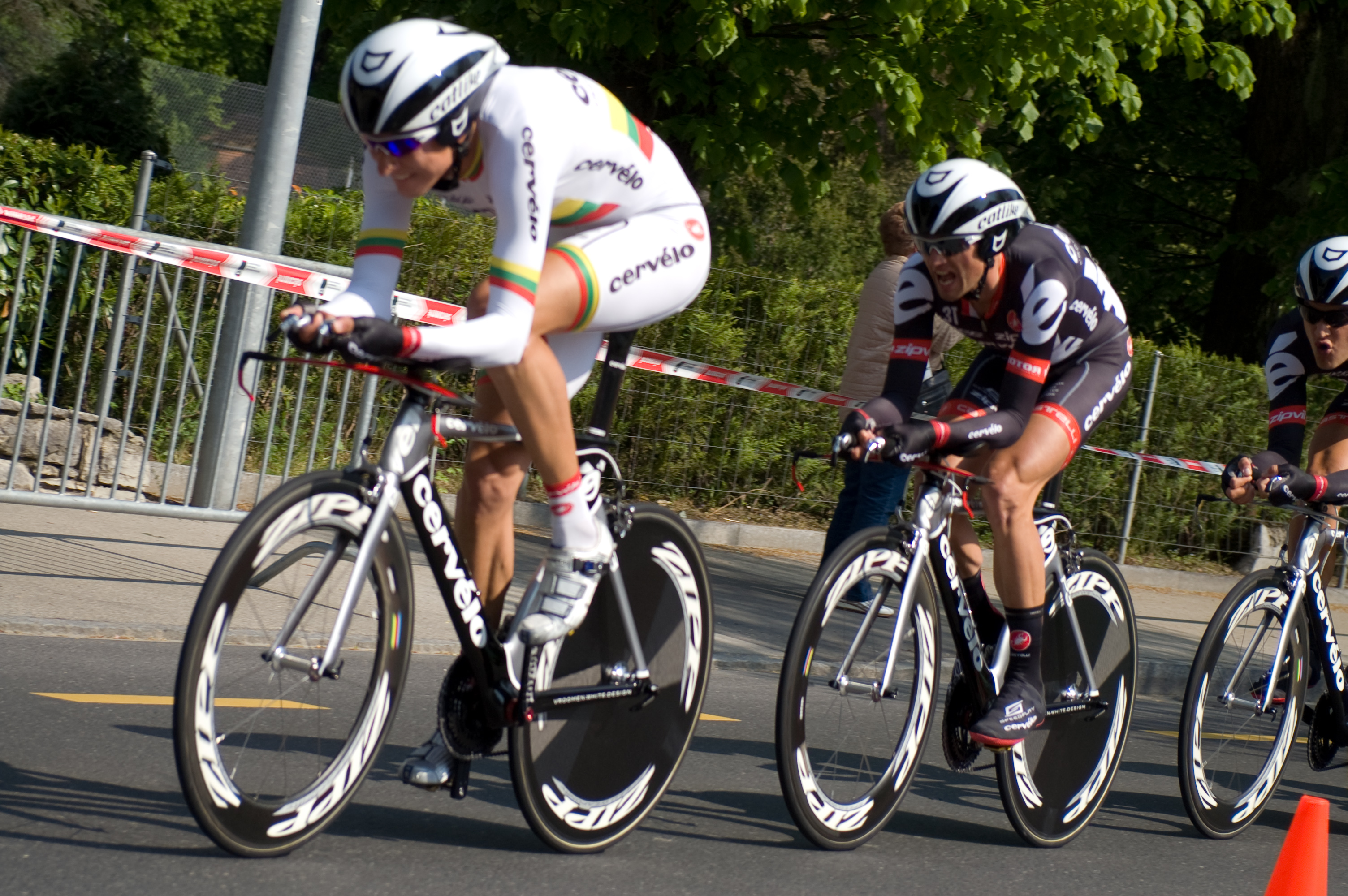 Tour de Romandie 2009 - 3rd stage - team time trial